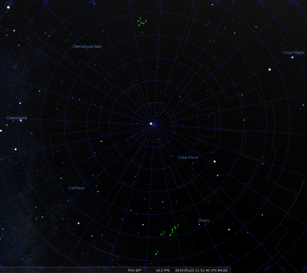 Image prepared using Stellarium 0.19.1 and Paint Shop Pro 4.12